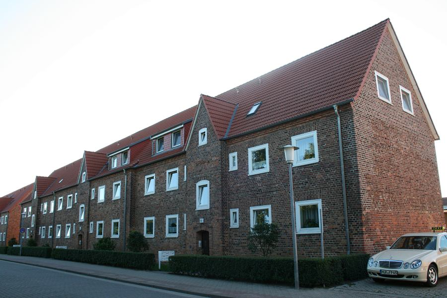 Thomas-Mann-Straße, Waren (Müritz), Westsiedlung, architect Günther Paulus